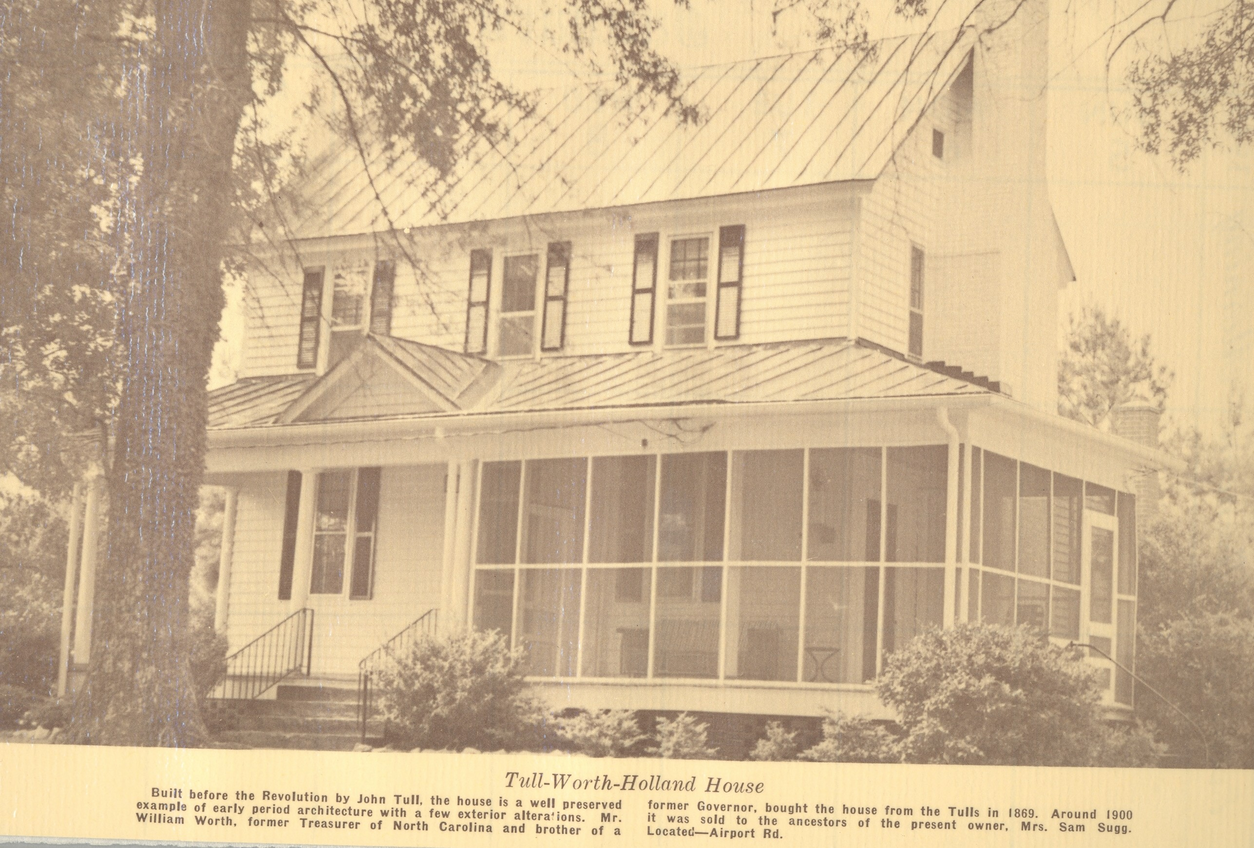 Tull Worth Holland House, Kinston, NC